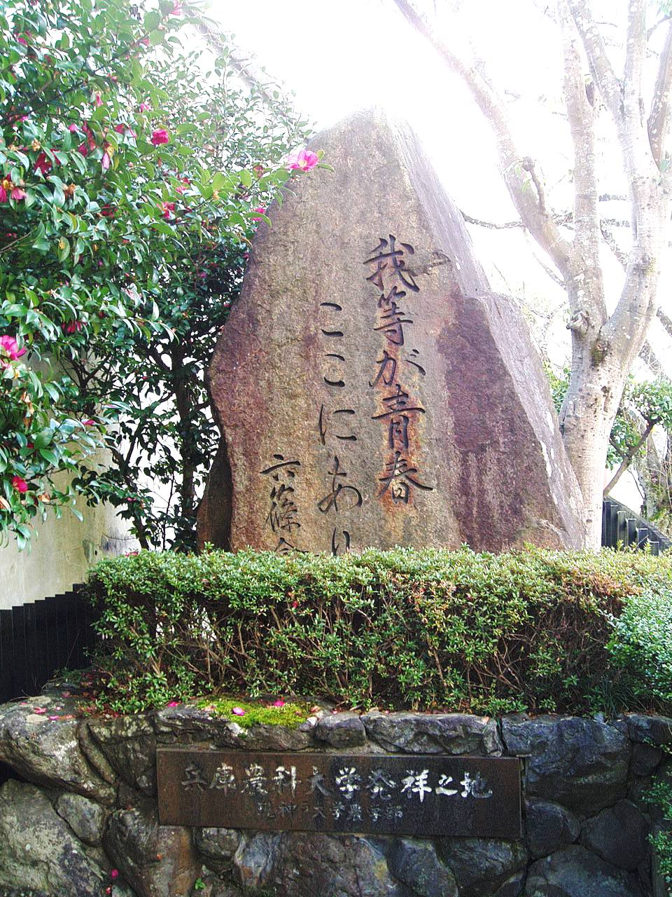 Memorial of the birthplace of Hyogo University of Agriculture, one of the predecessors of Kobe University, located in Tambasasayama, Hyogo, Japan.